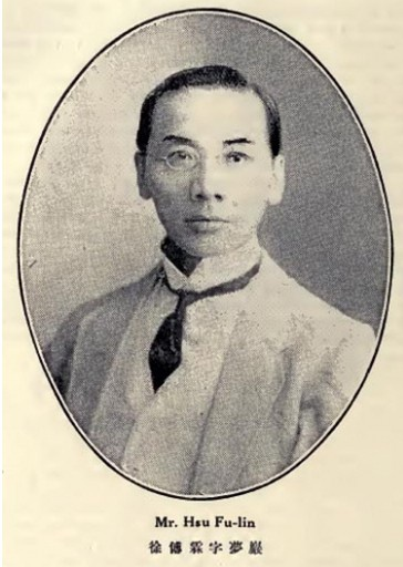 Xu Fulin (1878-1958)